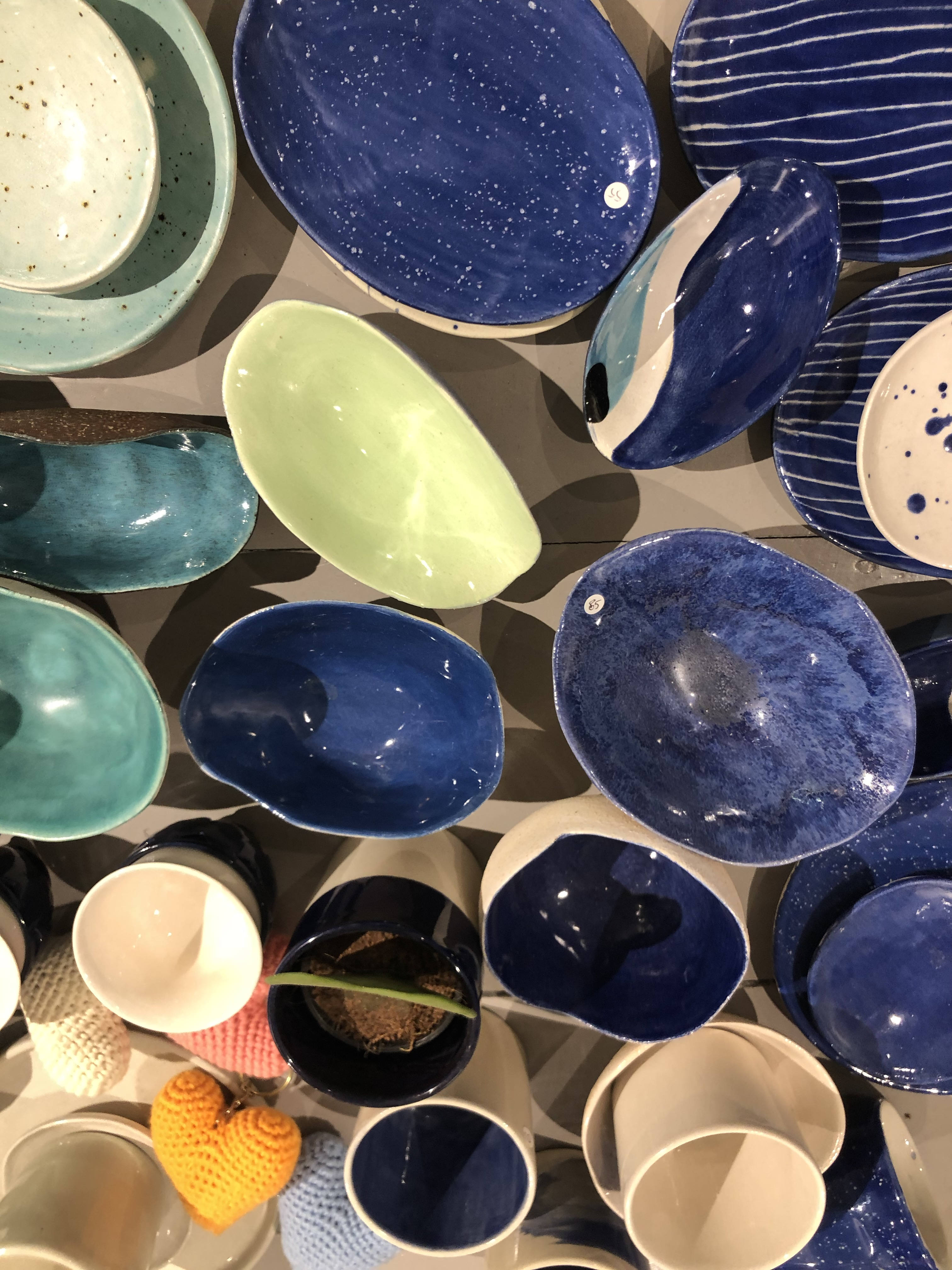 Handmade ceramics from Bozcaada, Turkey.